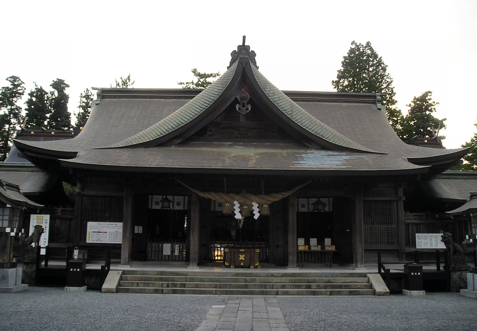 Aso Shrine Haiden, Aso City, Kumamoto, Japan